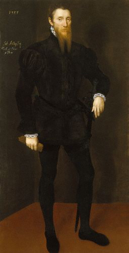 Full-length portrait of courtier John Astley (d. 1595)